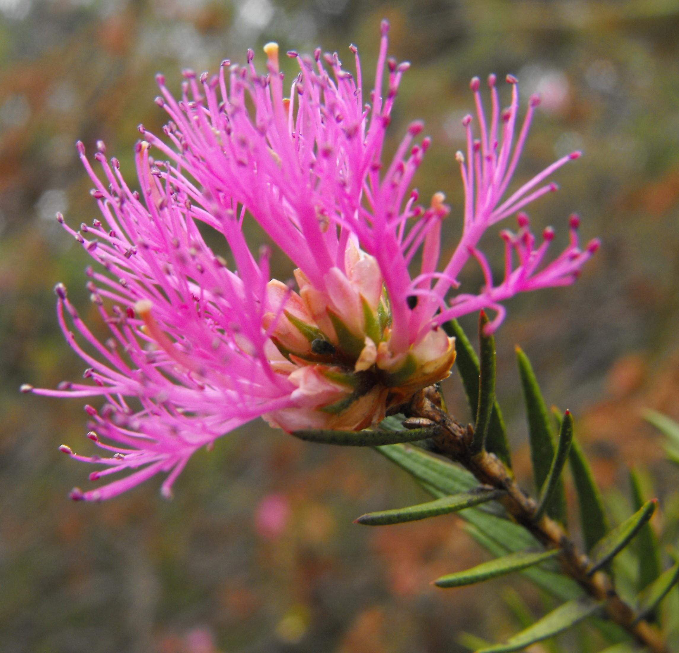 Melaleuca wilsonii At the San Diego Botanic Garden (formerly Quail Botanical Gardens) in Encinitas, California. Identified by sign.